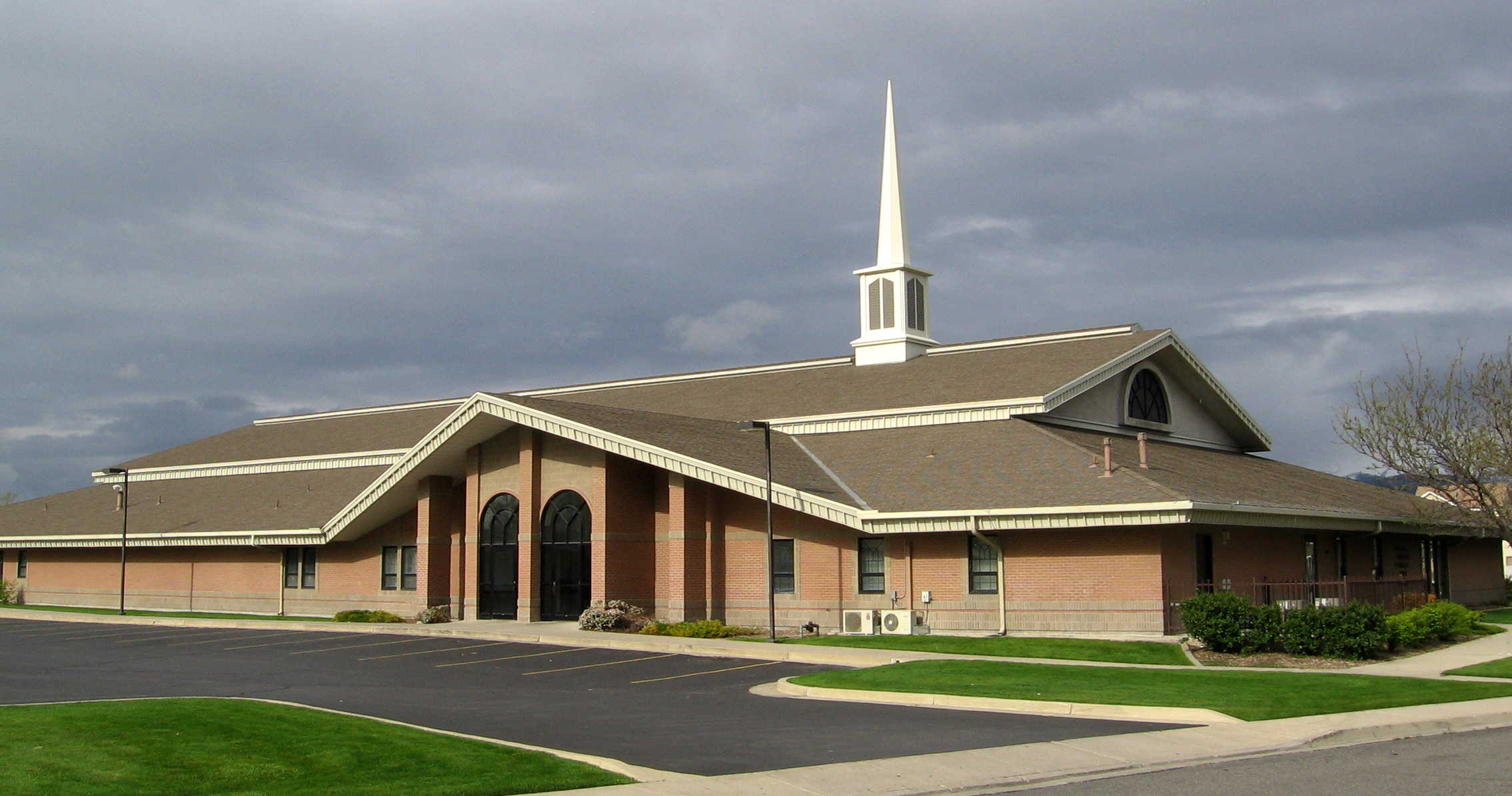 A stake center of The Church of Jesus Christ of Latter-day Saints (LDS). Located in West Valley City, Utah, USA, this architectural style is typical of those built in the 1990's.